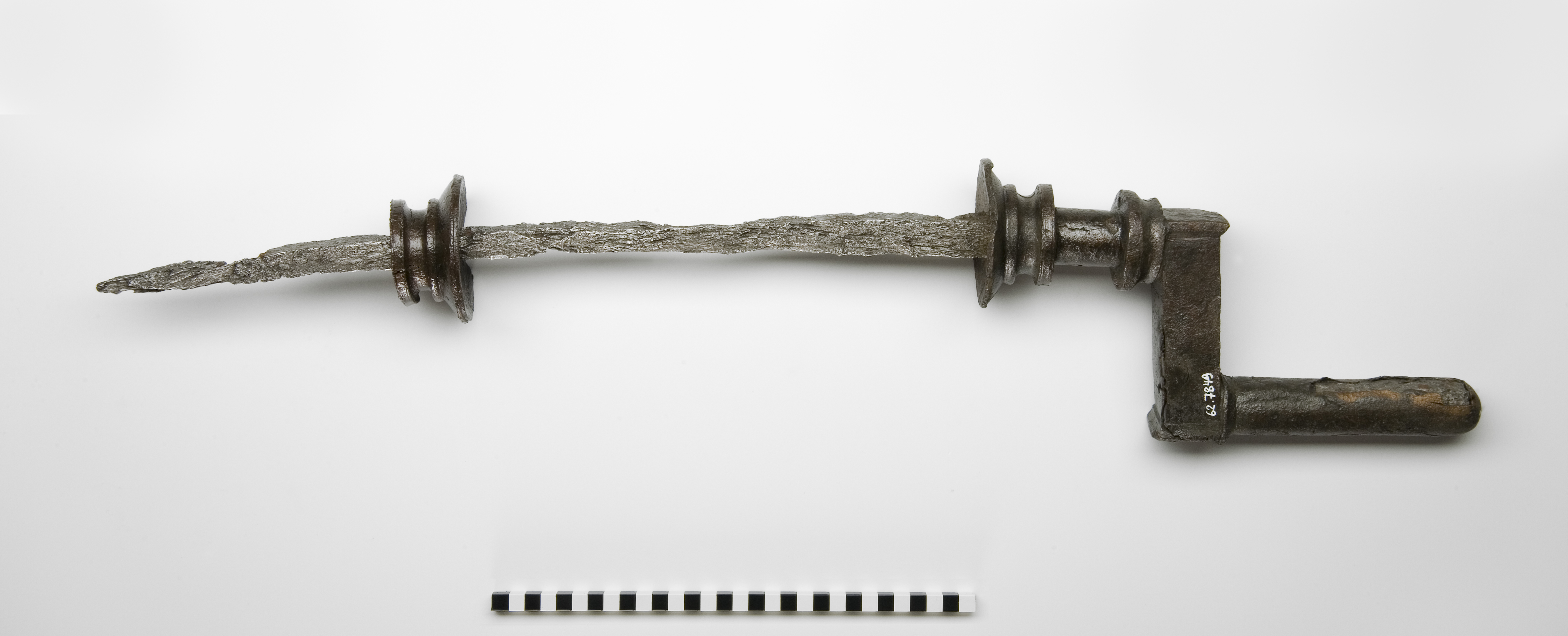 Ancient Roman iron crank from Augusta Raurica, Switzerland. The 82.5 cm long piece with a 15 cm long handle is of yet unknown purpose and dates to no later than ca. 250 AD.[1] Current location: Museum Augusta Raurica, Inv.-No. 1962.7849